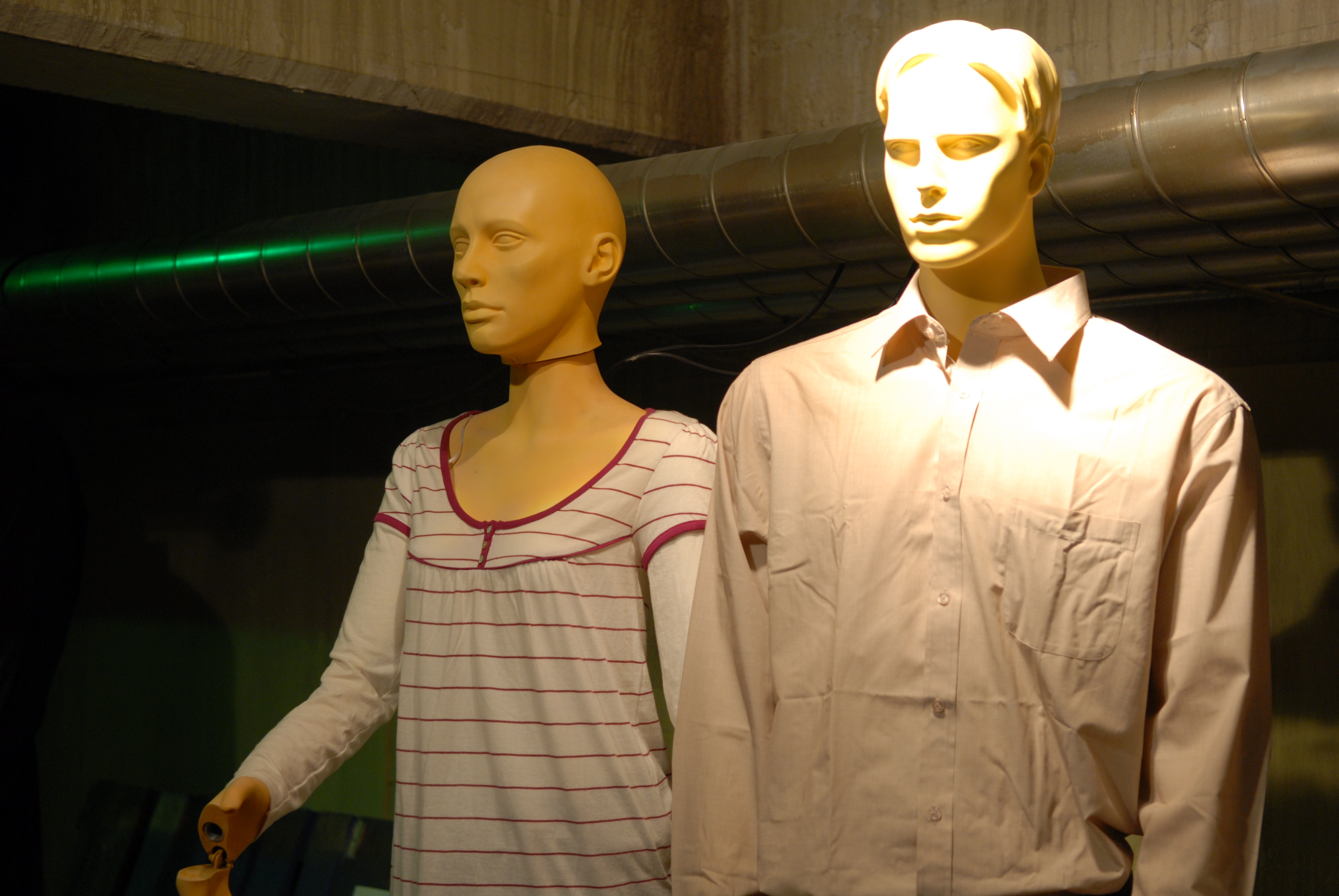 DSC_0984 Doctor Who Experience